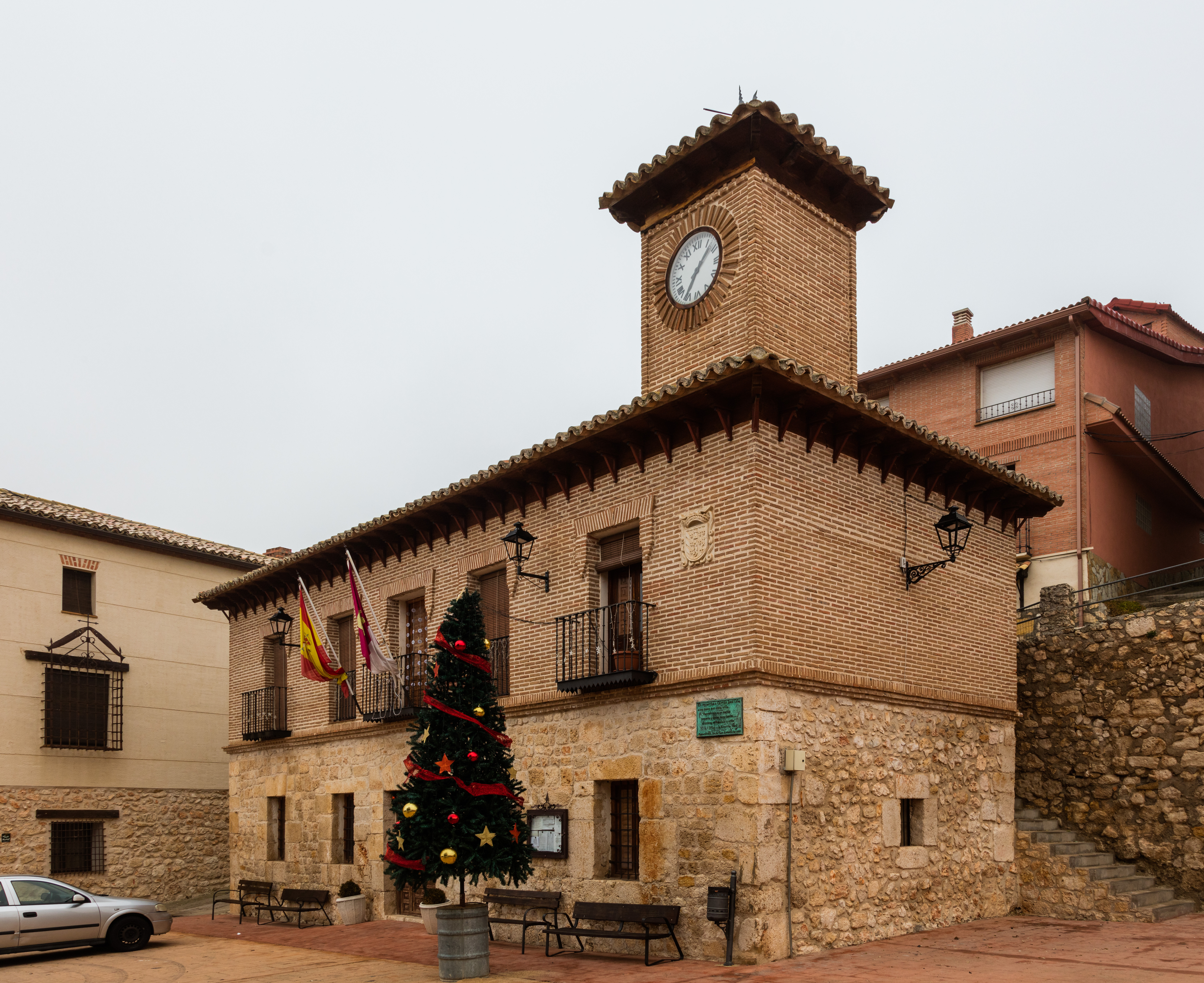 Town hall, Fuentelviejo, Guadalajara, Spain